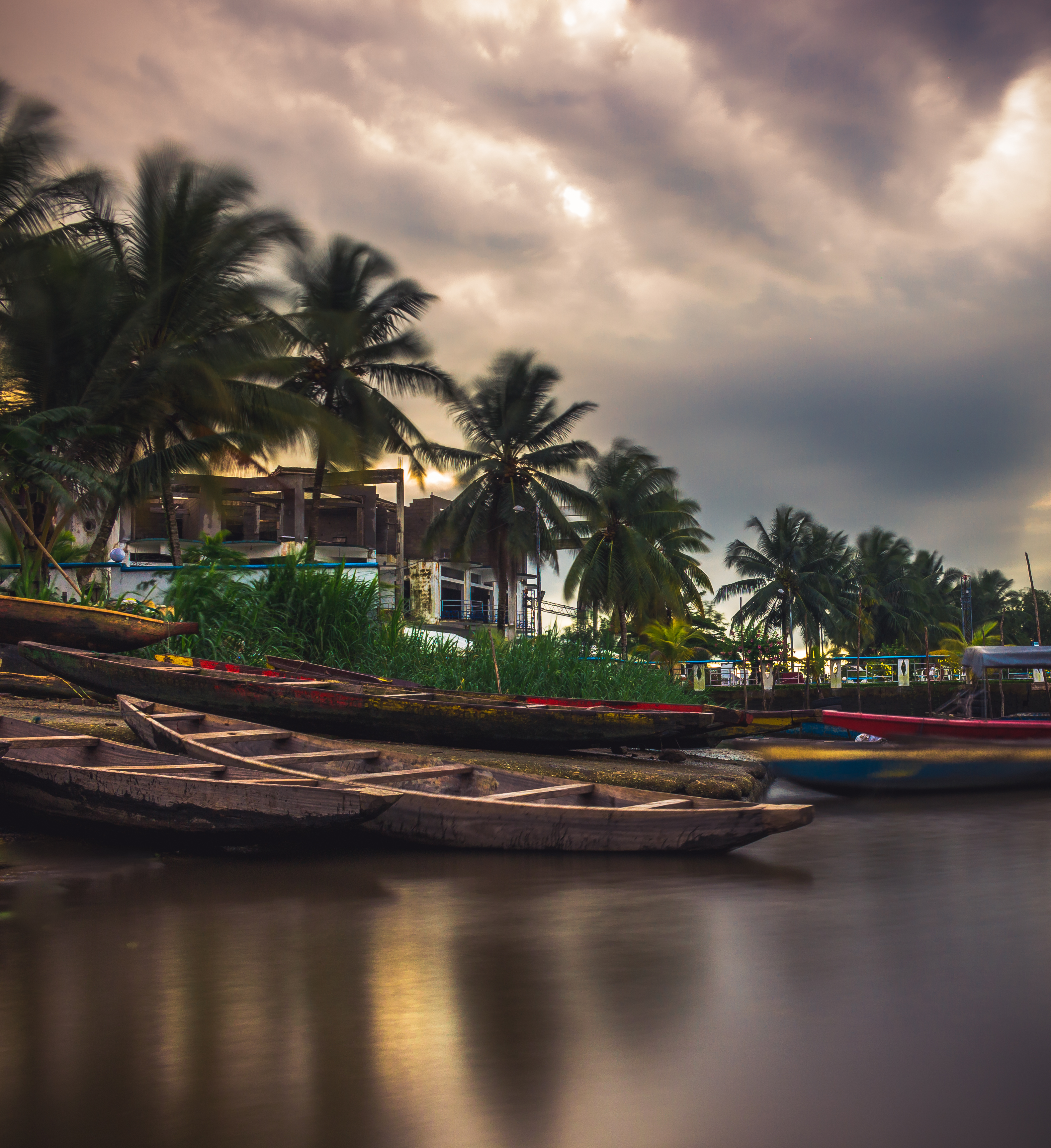 A beautiful sunset at the banks of the Wouri River where canoes used for fishing and public transportation dock. A typical tropical scene with palm trees in the background, a long exposed smooth water surface in the foreground and the boats in the mid-ground